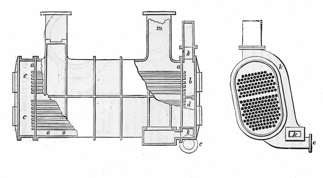 Surface condenser (Steam and the Steam Engine, Evers).jpg